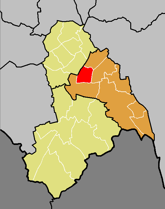 The ward of Addiscombe (red) shown within the Croydon Central constituency (orange) within the London Borough of Croydon (yellow).